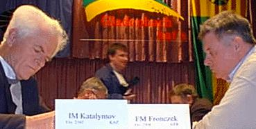 Boris Katalymov and Heinrich Fronczek, Senior Chess World Championship 1999 at Gladenbach in Germany.